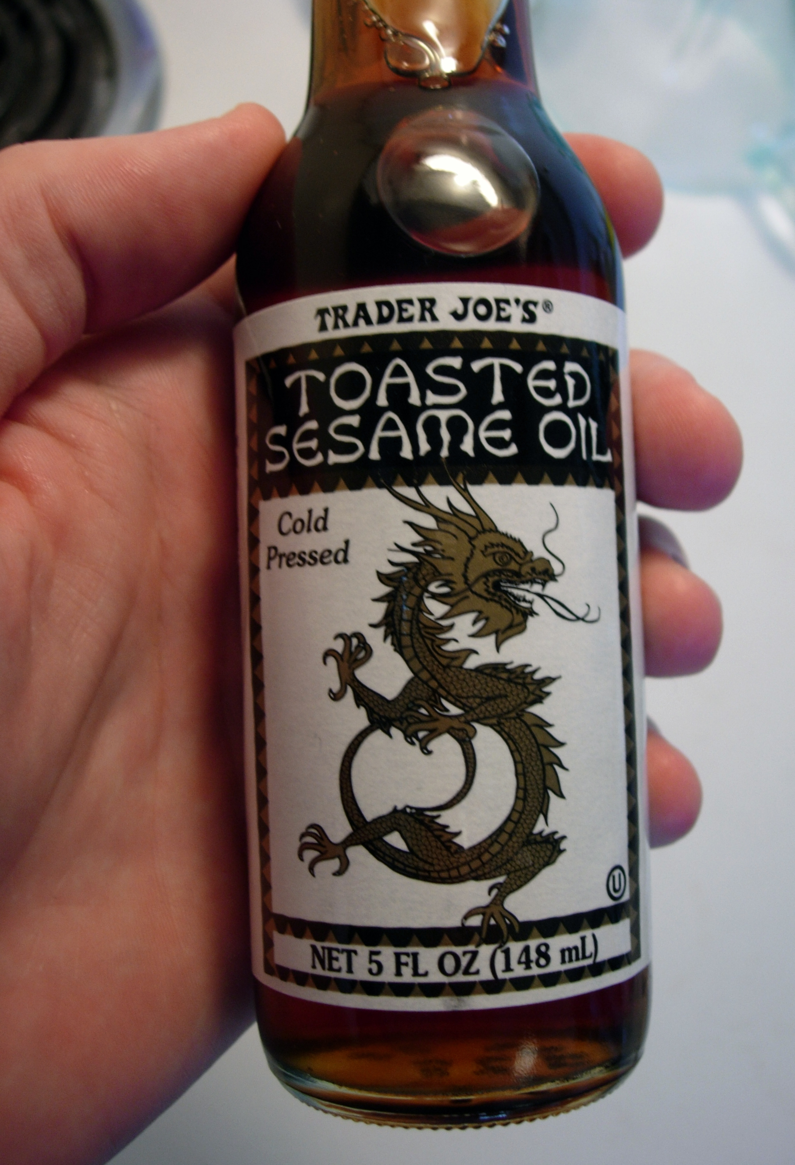 A picture of sesame oil.